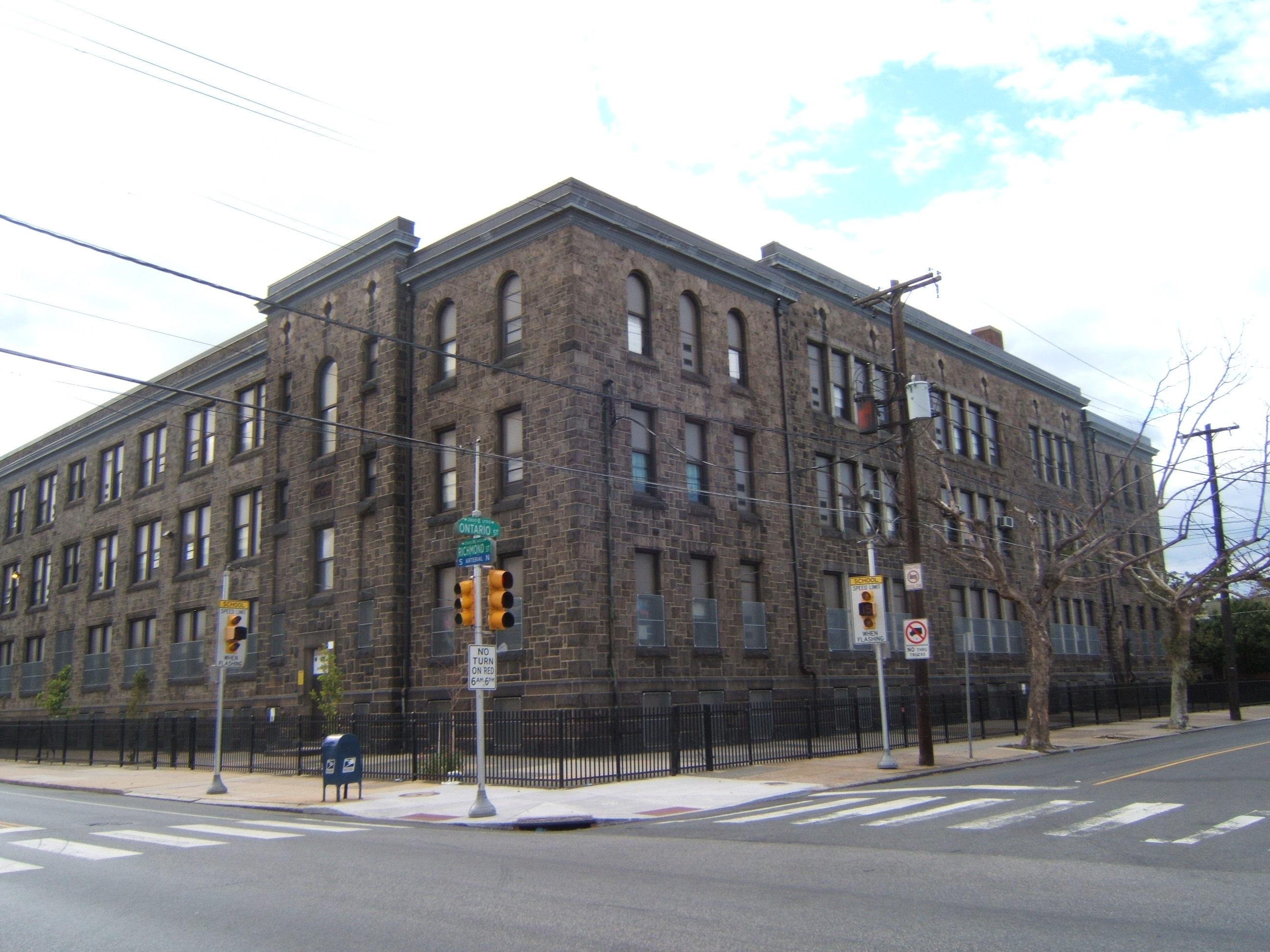 James Martin School, 3340 Richmond Street, Philadelphia, Pennsylvania 19134, View of NE corner, Richmond and Ontario Streets